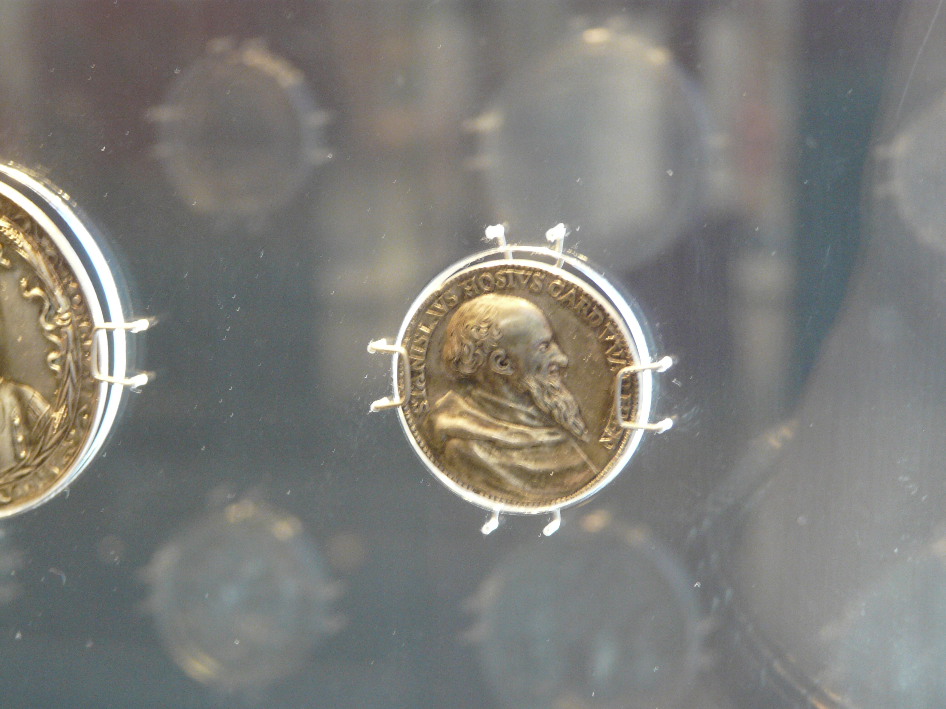 From the collection of the National Museum in Poznań. Stanisław Hozjusz (Stanislaus Hosius), 1561